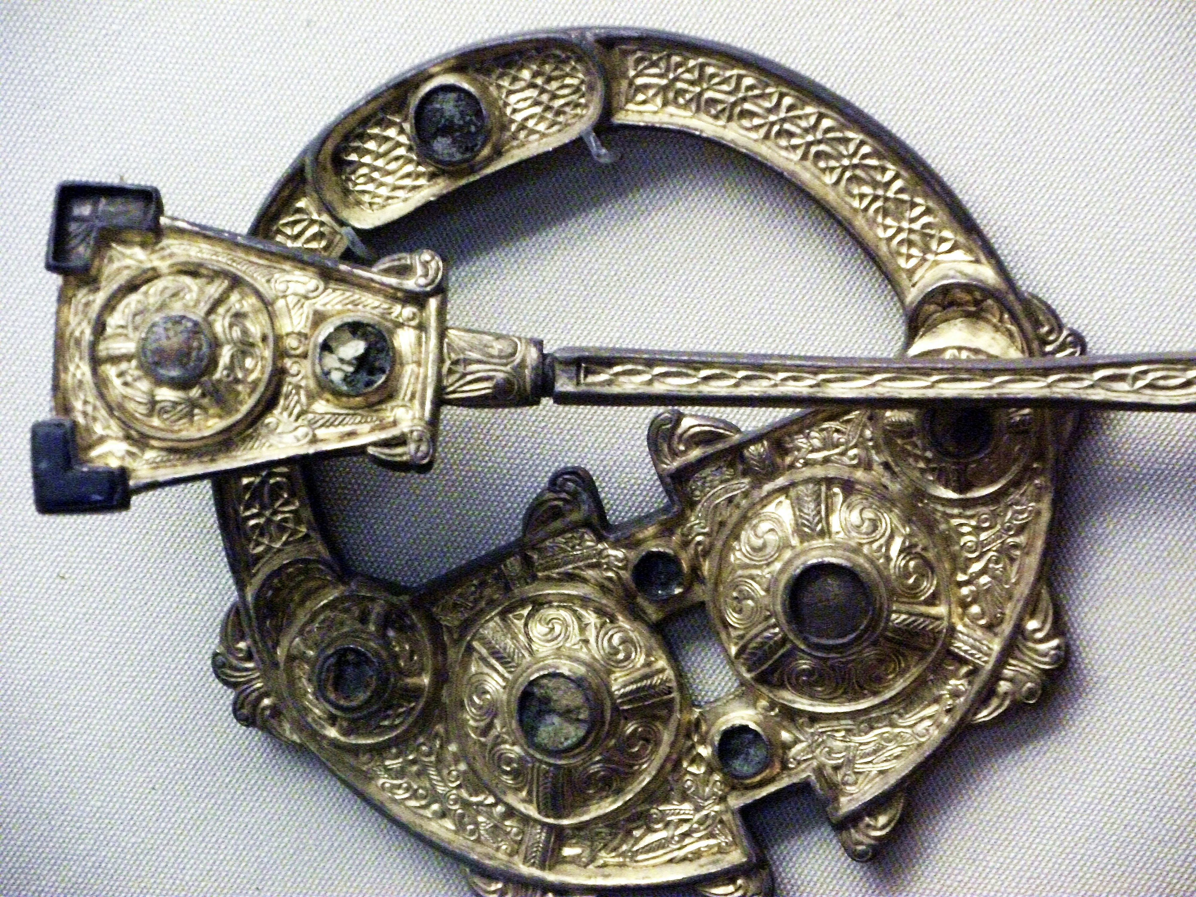 Detail of the Londesborough Brooch, British Museum BM Webpage